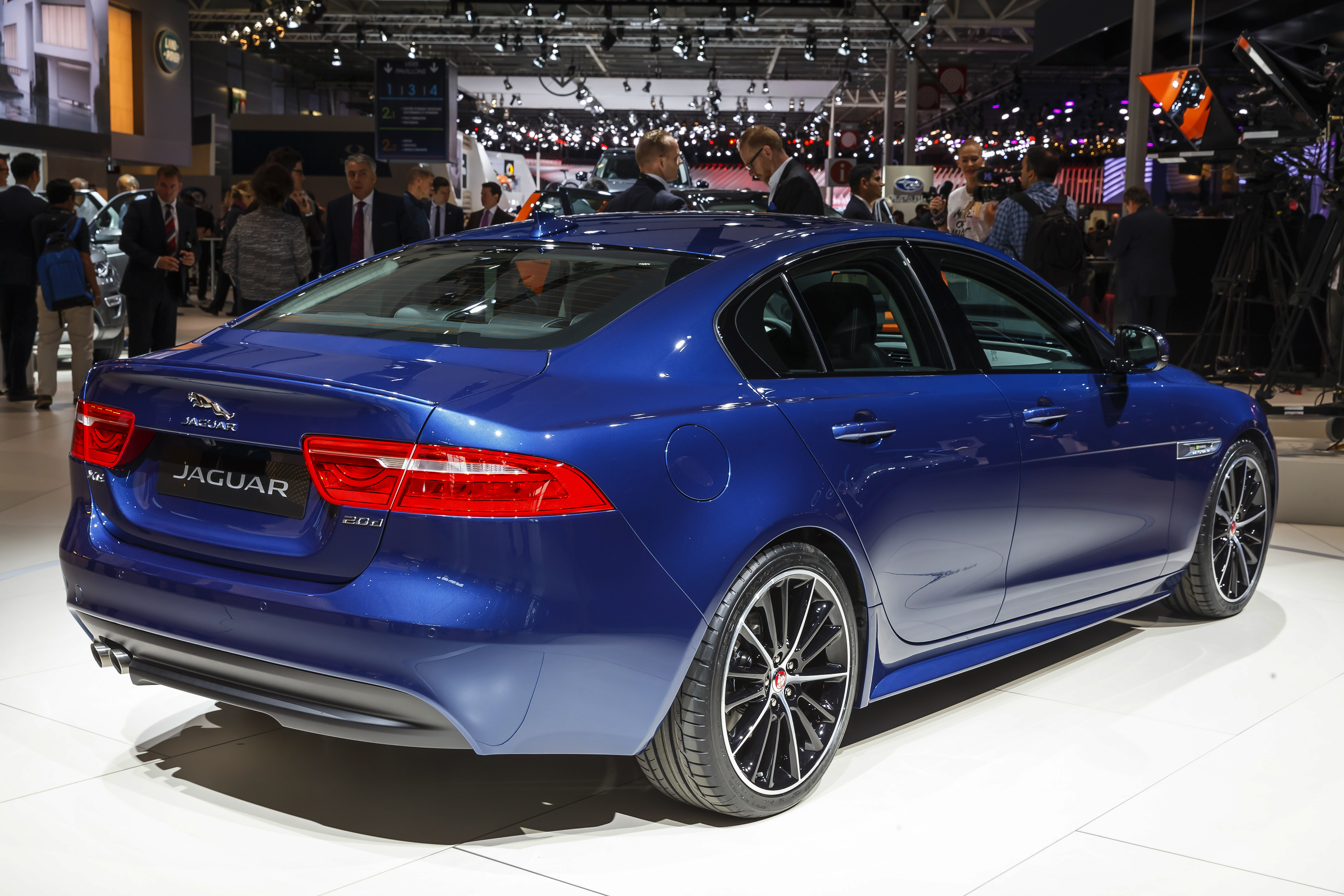 Jaguar Land Rover press conference the 2014 Paris Motor Show. Reinforcing its commitment to product development and global expansion, Jaguar Land Rover, the UK's leading manufacturer of premium vehicles showcased its breakthrough Land Rover Discovery Sport and Jaguar XE models at the Paris Auto Show.